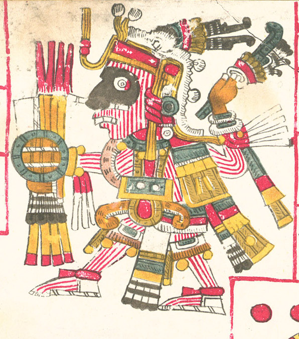 A drawing of Mixcoatl, one of the deities described in the Codex Borgia